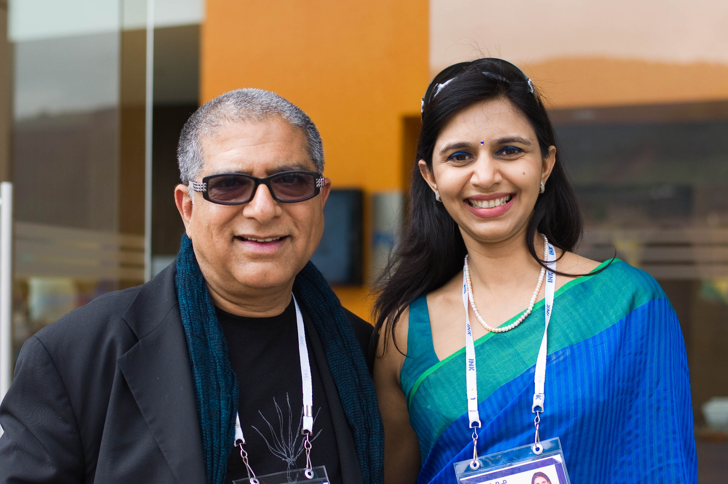 Deepak Chopra and Aparna Malhotra